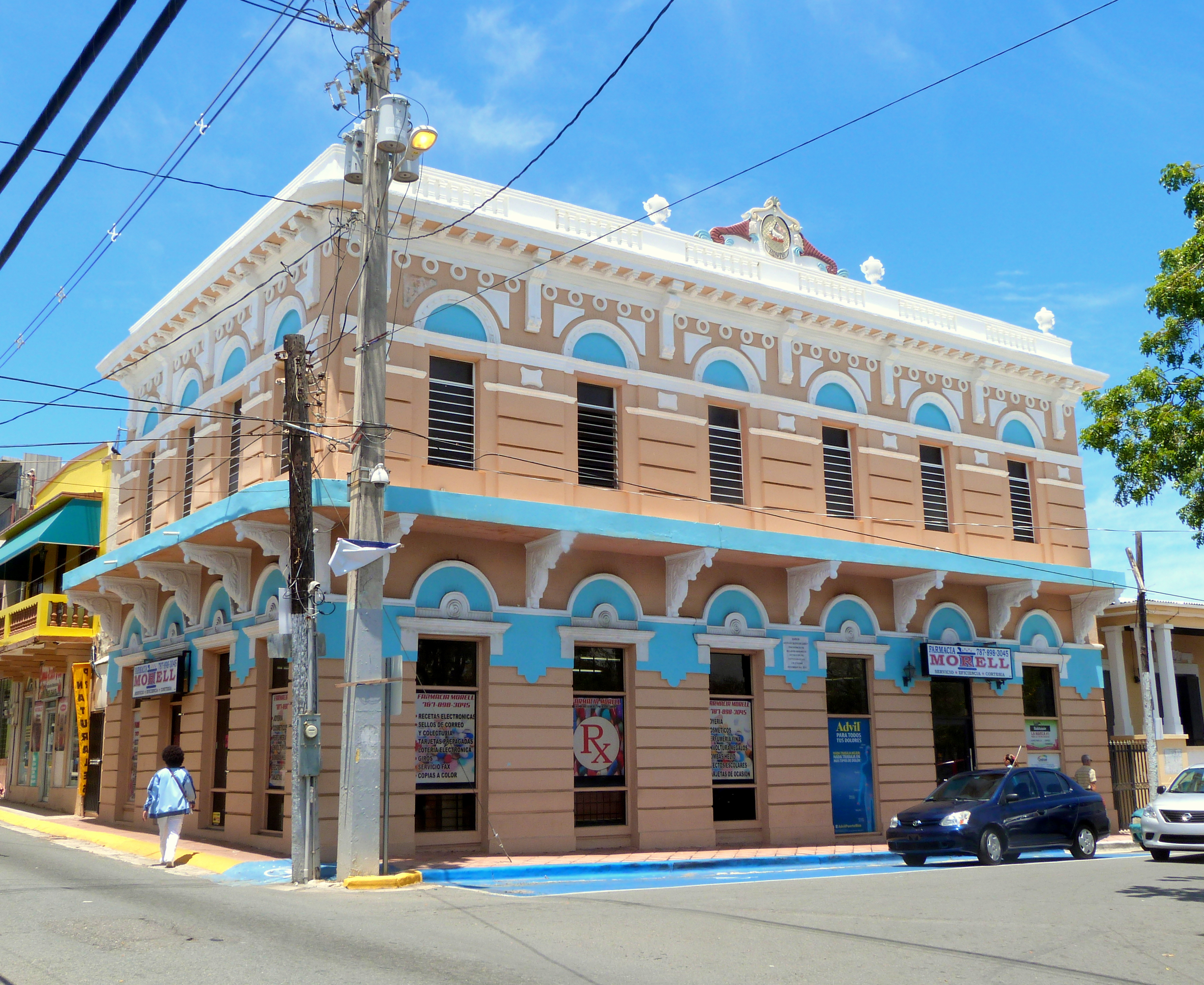 The historic Antiguo Casino Camuyano (built 1910), located facing the town plaza at the corner of Calle Estrella and Calle Muñoz Rivera in Camuy, Puerto Rico, is listed on the U.S. National Register of Historic Places.